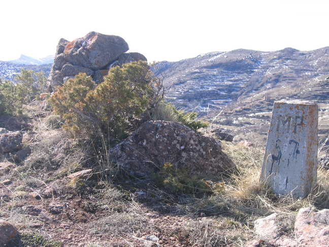 Frontier between Soriguera and Pallars Baix / Old stone and new stone